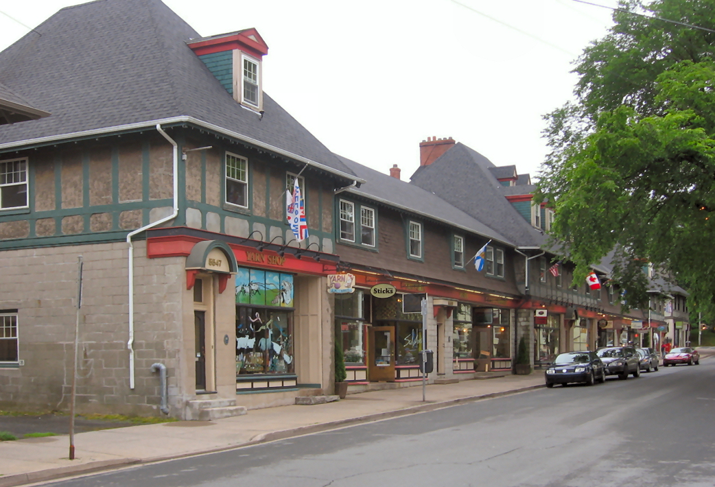 Photo of streetscape in Halifax's Hydrostone district. Photo taken July 2006. Verne Equinox 02:22, 10 July 2006 (UTC)